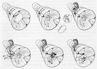 Method of donning the astronaut maneuvering unit, carried in the adapter section. (NASA Photo S-66-24197, Mar. 16, 1966.)